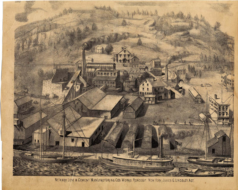 Scanned page of an atlas of Ulster County, New York prepared by F. W. Beers and first published in 1875.